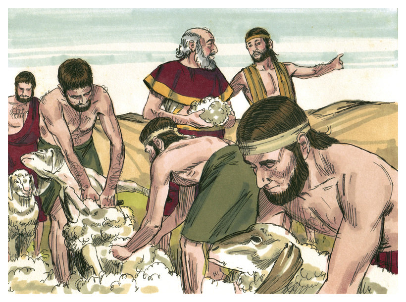 Biblical illustration of Book of Genesis Chapter 31